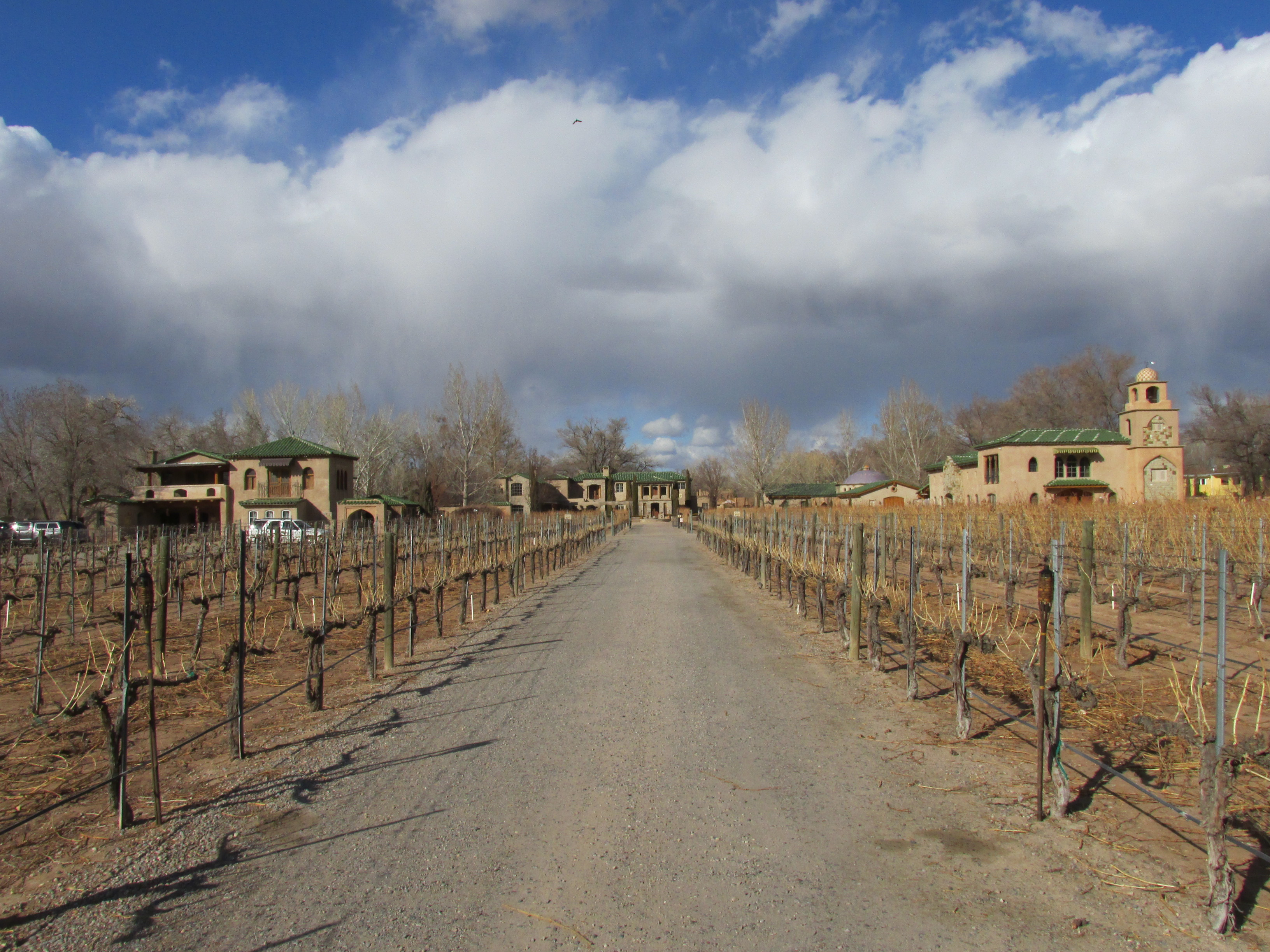 Casa Rondena Winery, Los Ranchos de Albuquerque New Mexico